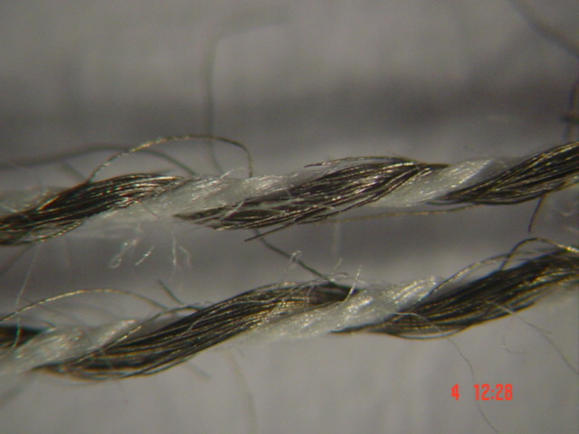 Two fold synthetic textile yarn. It consists of one conductive and one non-conductive part.It can be used for the construction of textile fabrics for electromagnetic shielding etc